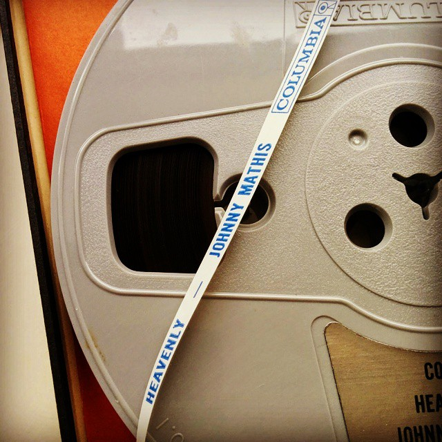 Heavenly by Johnny Mathis. A reel tape from Columbia Records (CQ 333). Circa 1959. Recorded for playback at 7.5 inches per second.